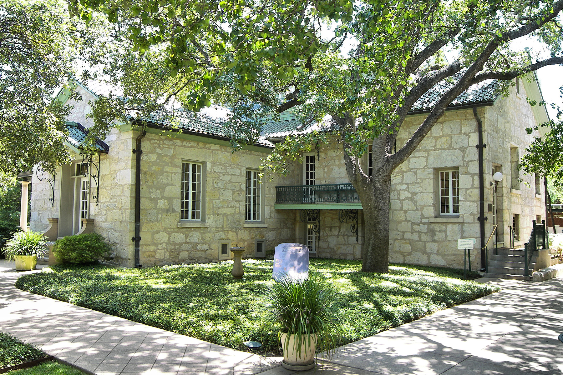 The Carl Hilmar Guenther House in San Antonio, Texas, United States. The Guenther and Sons House and Flour Mill was listed on the National Register of Historic Places on October 11, 1990.